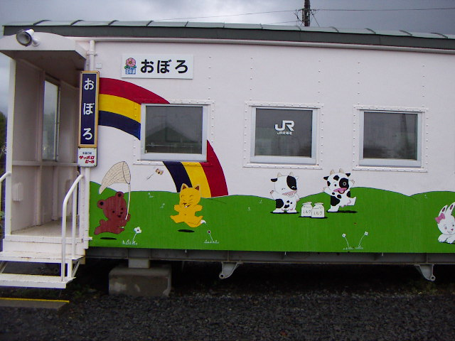 Oboro Station in Hokkaido, Japan